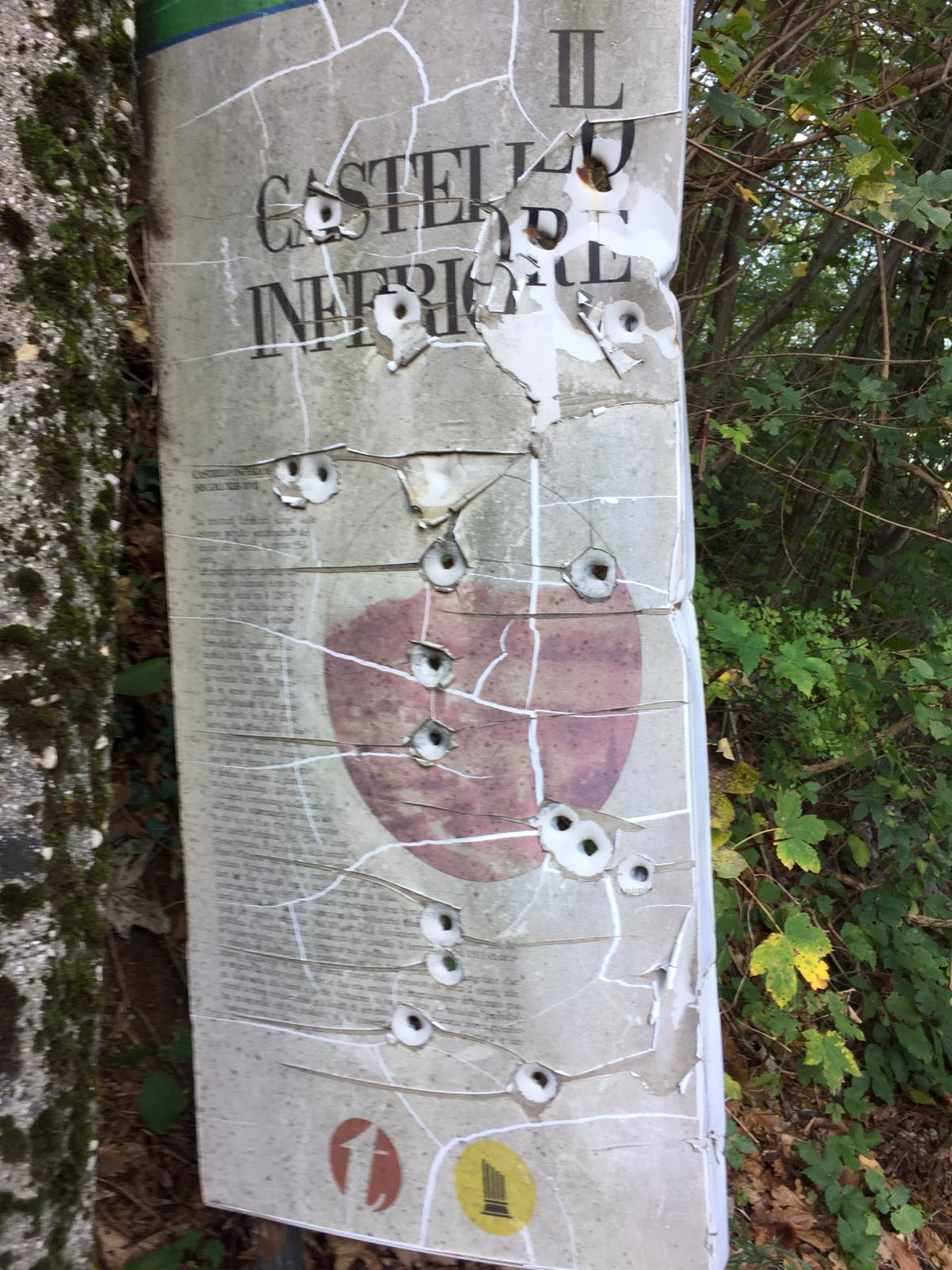 Attimis Inf